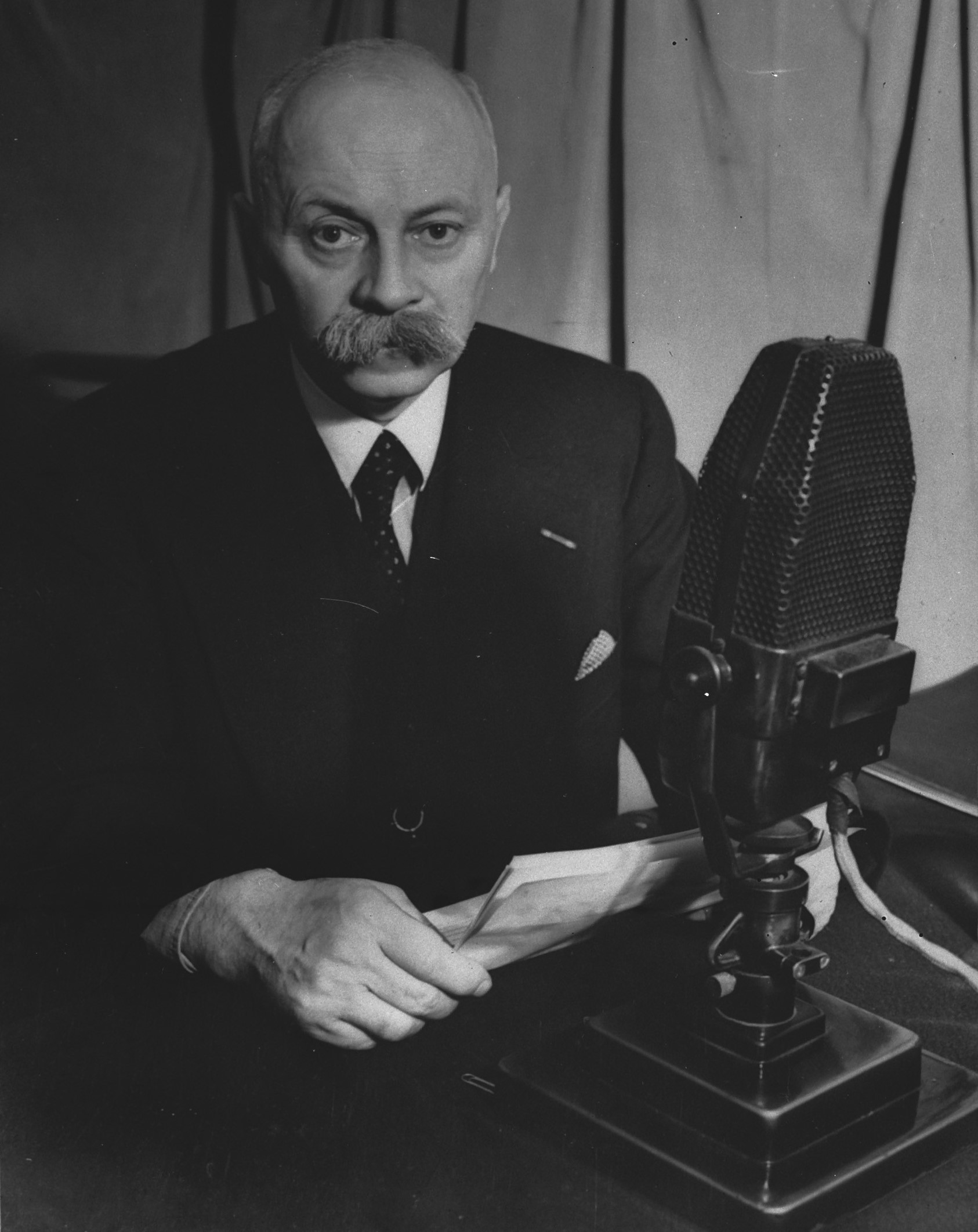 Pieter Gerbrandy gives a radiospeech on 1941-09-23 for BBC with microphone